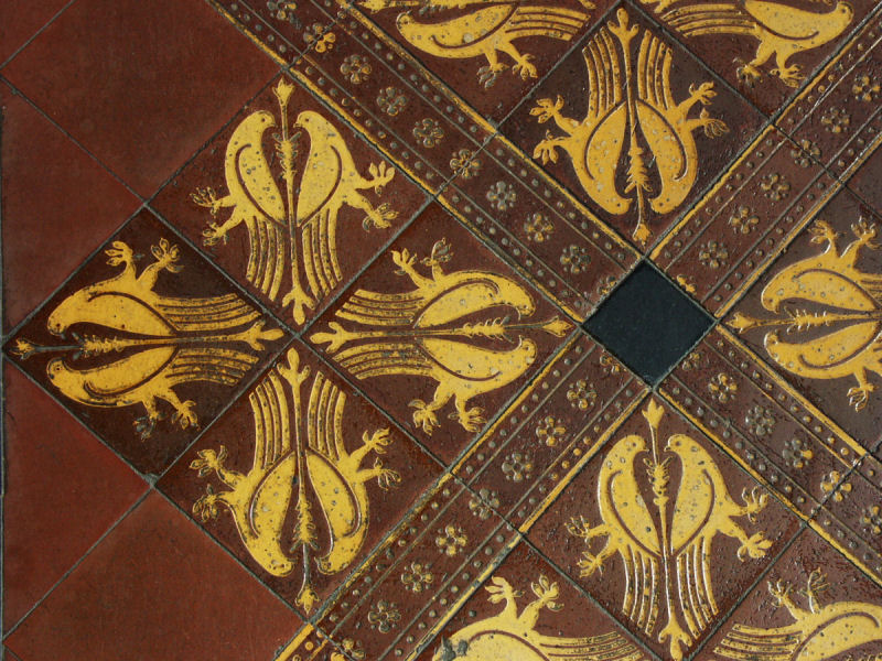 St Oswald's Church in Ashbourne, Derbyshire, England